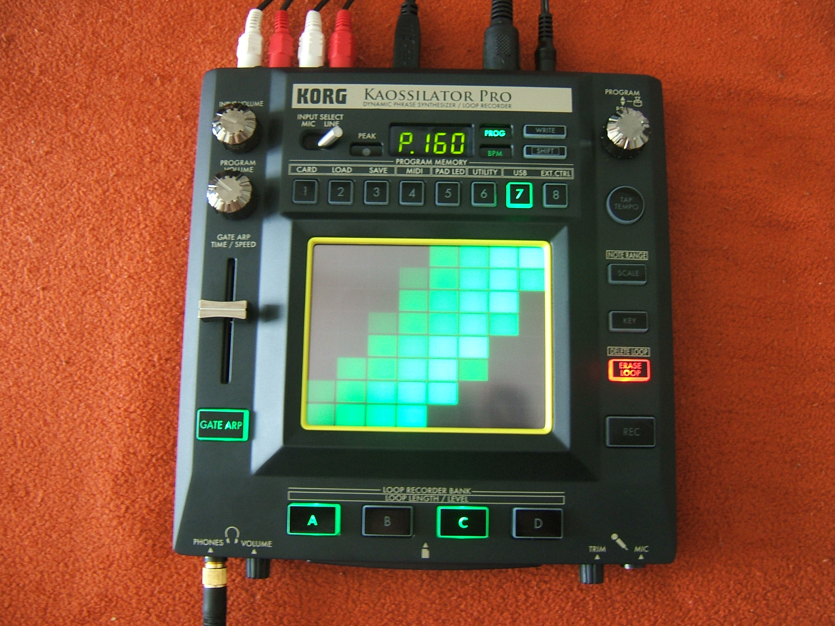 Korg Kaossilator Pro, Dynamic Phrase Synthesizer and Loop Recorder